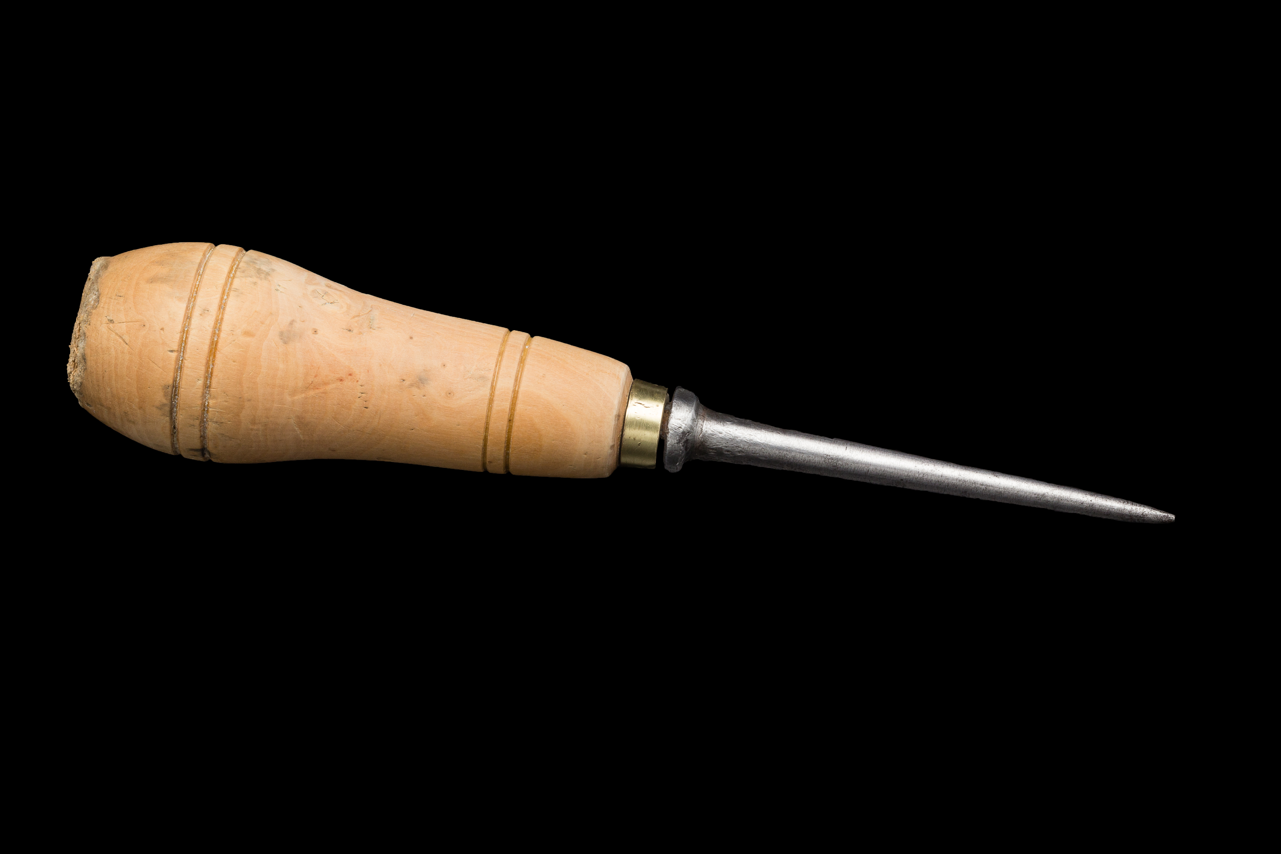 Saddler's punch.